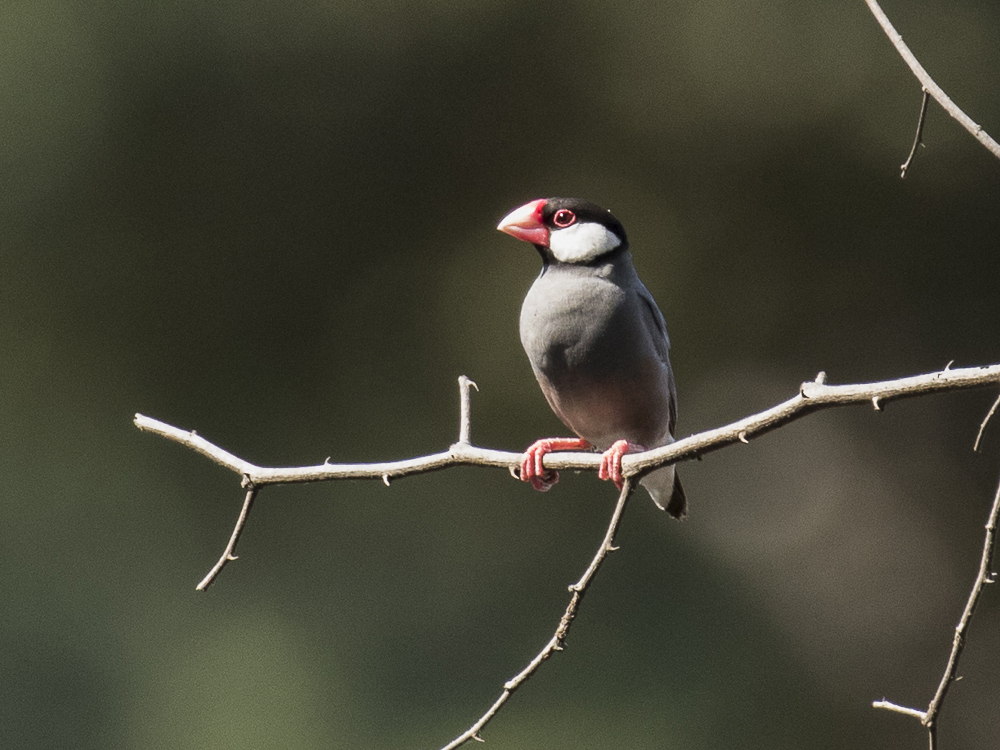 Java Sparrow - Baluran NP - East Java_MG_8180